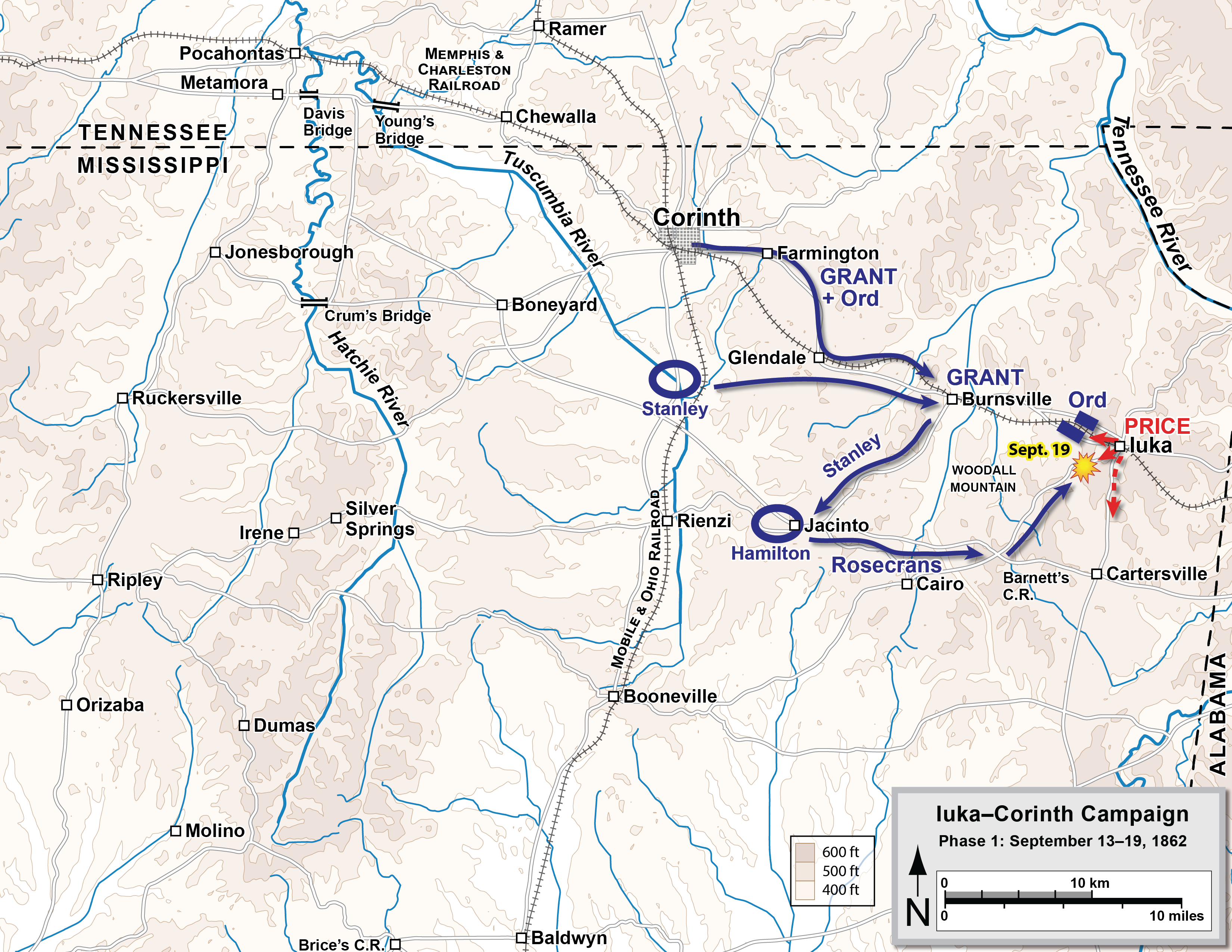 Iuka-Corinth Campaign of the American Civil War, part 1. Drawn by Hal Jespersen in Adobe Illustrator CS5. Graphic source file is available at